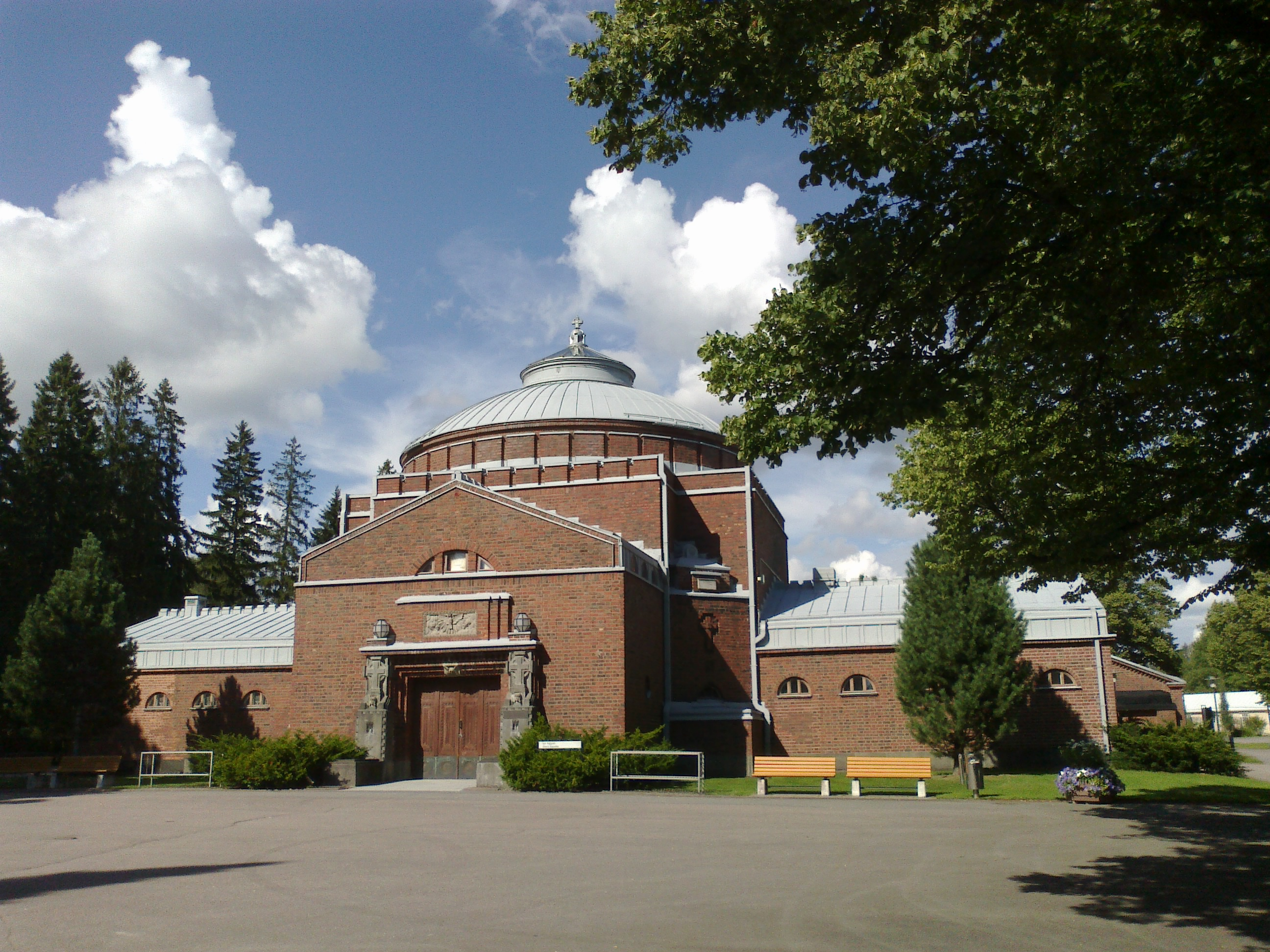 Main chapel at the Malmi Graveyard in Helsinki, Finland